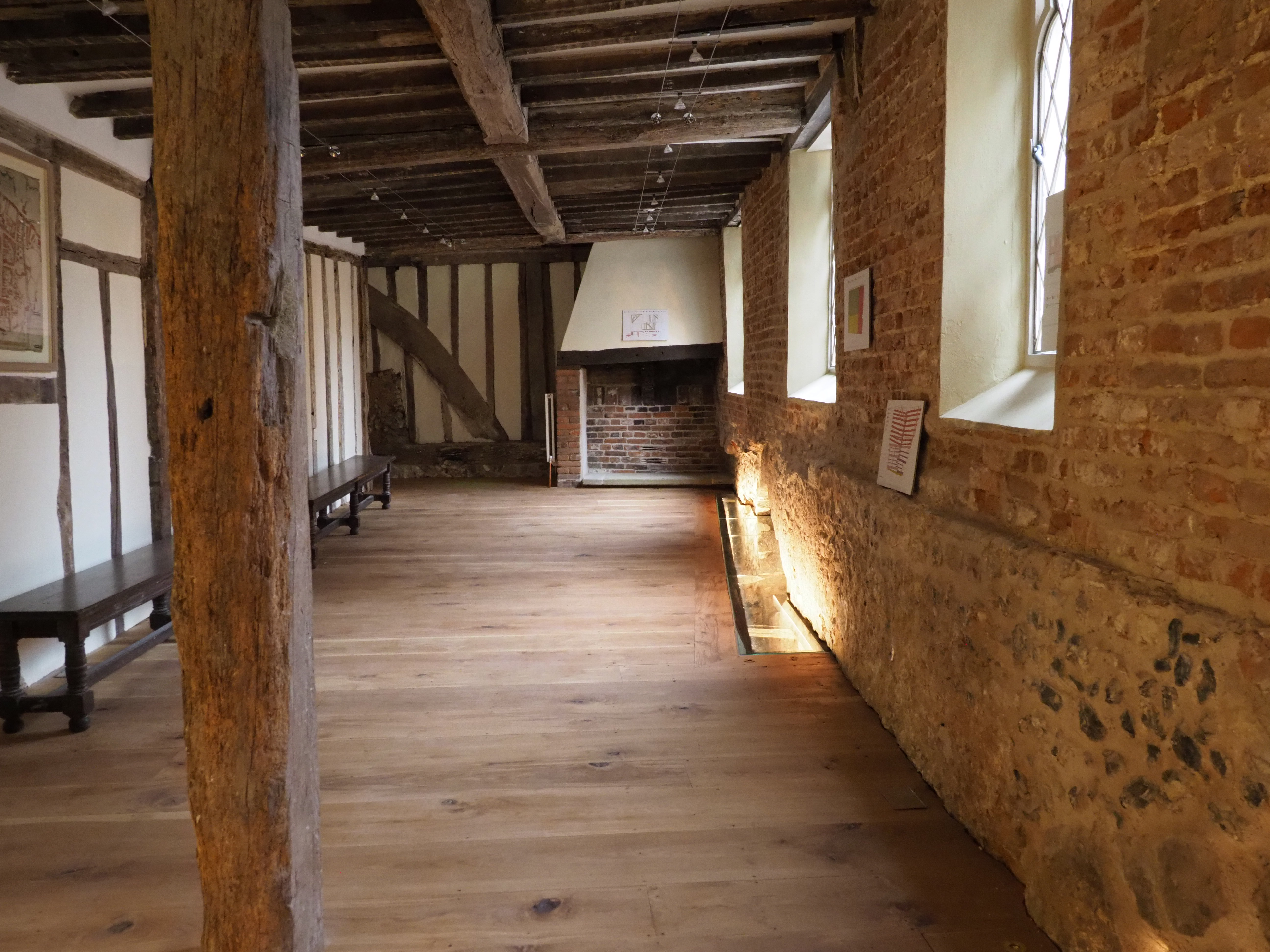 Picture of the Juxon Room, Eastbridge Hospital of St Thomas the Martyr, Canterbury